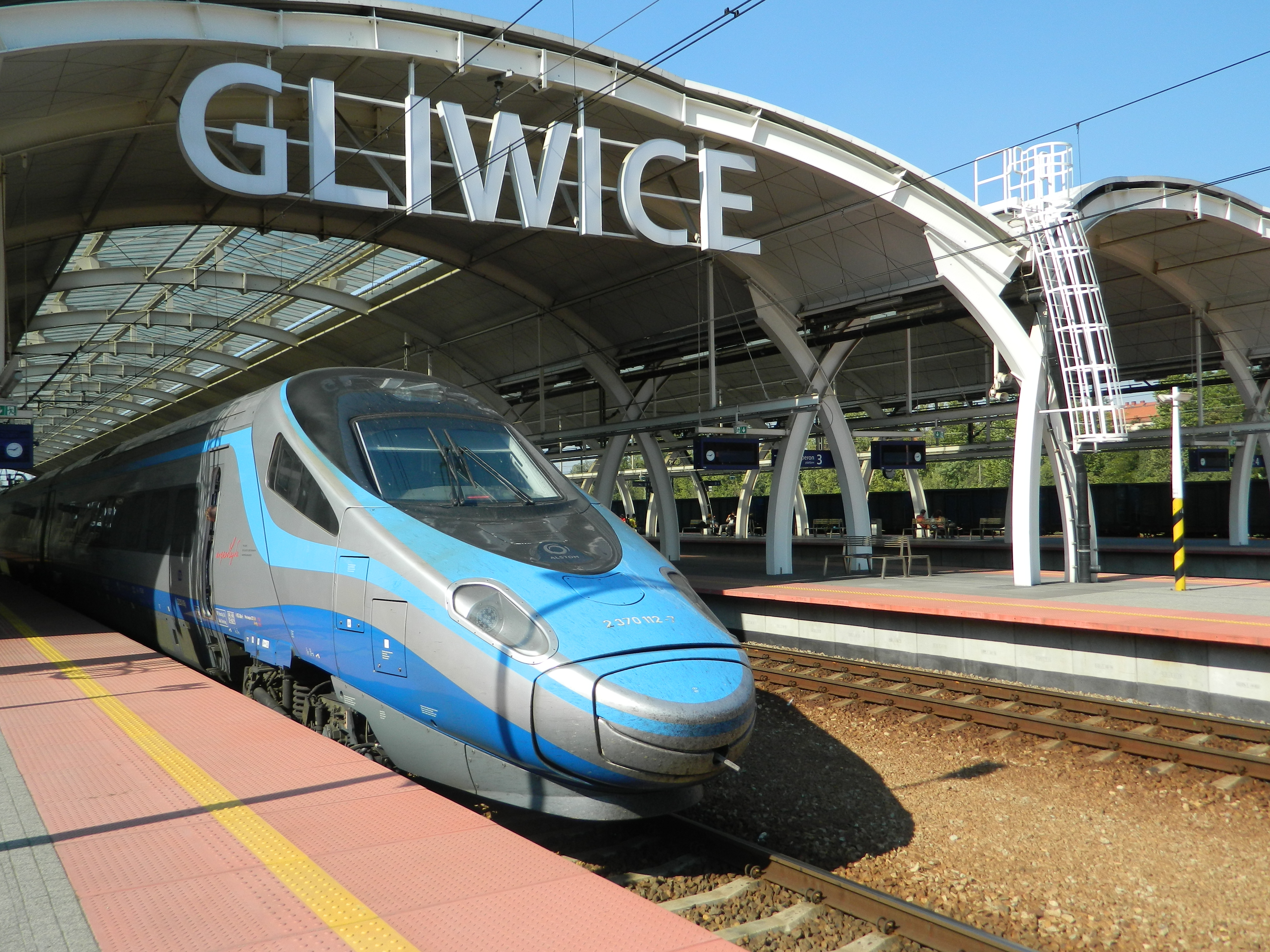 A high-speed Polish Alstom Pendolino train terminates at Gliwice, sighted sitting under the canopy in the sun. The train previously ran from Warszawa Centralna and Katowice, completing the journey in about two and a half hours.